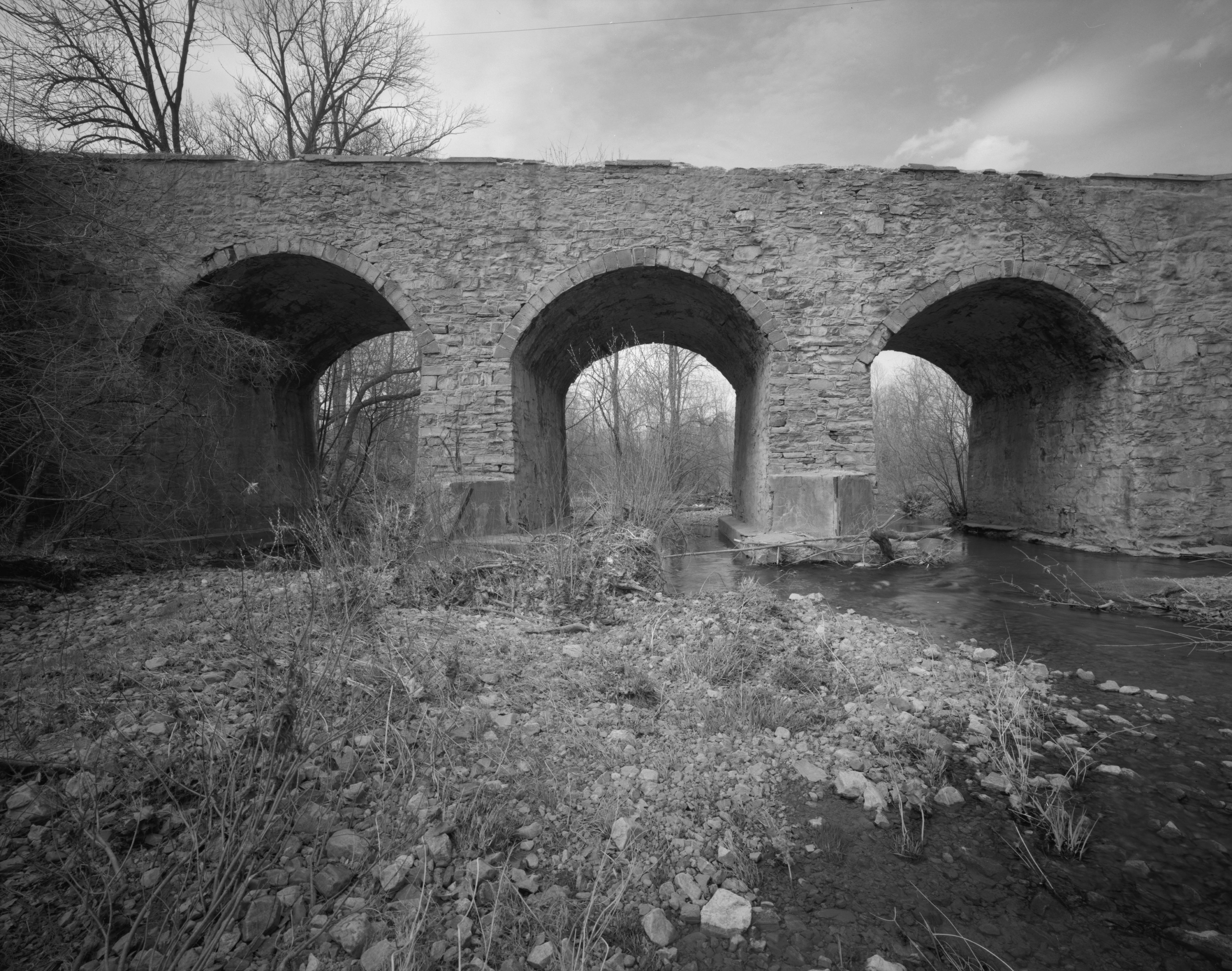 Centennial Bridge, Station Avenue spanning Saucon Creek, Center Valley (Lehigh County, Pennsylvania).